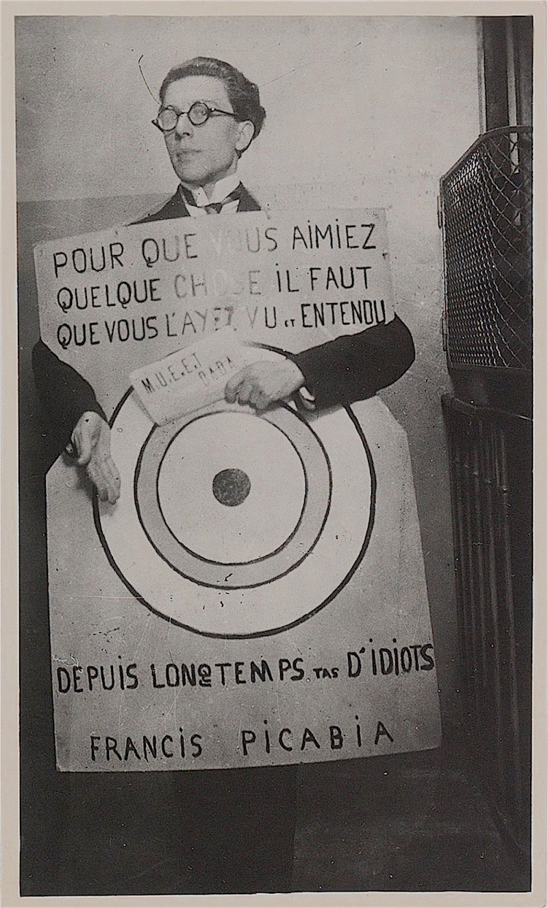 André Breton at Dada festival in Paris bearing a sign designed by Francis Picabia